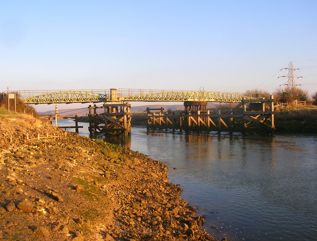 Southease Swing Bridge Viewed from the western bank. Prior to a bridge the original crossing was further to the south at Stocks Ferry until a bridge was added when the river was straightened sometime between 1790 and 1810. This bridge was replaced by the swing bridge in the 1880s to allow navigation up to Asham Wharf and Lewes. The cement works which used Asham Wharf closed in 1967 and since then no large water-borne traffic has needed to sail up river and consequently the bridge has not been opened since though the mechanism still exists should there be a need to. The bridge itself carried traffic from the western to eastern side of the valley though this route too has been blocked up with minimal vehicular traffic crossing to use Southease station or gain private access to Itford Farm. However, the bridge is well used by walkers carrying the South Downs Way across the Ouse valley as well as connecting with footpaths on either side of the river between Newhaven and Lewes.